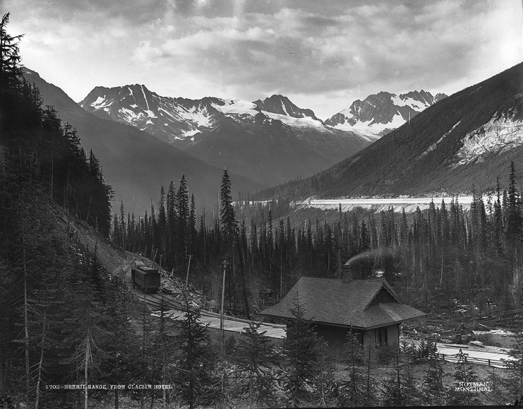 VIEW-1702 Hermit Range from Glacier Hotel, BC, 1887 William McFarlane Notman 1887, 19th century Notman photographic Archives - McCord Museum VIEW-1702 Vue du chaînon Hermit depuis l'hôtel Glacier, C.-B., 1887 William McFarlane Notman 1887, 19e siècle Archives photographiques Notman - Musée McCord To see the image file on the McCord Museum website, click on the following link: Pour voir la fiche descriptive de cette photographie sur le site Web du Musée McCord, cliquer le lien suivant